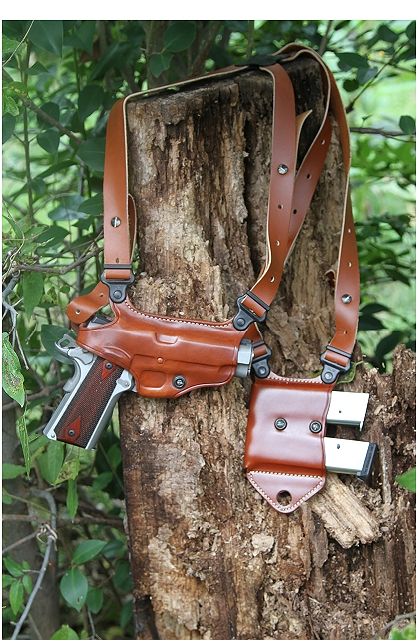 A horizontal shoulder holster- the Galco Miami Classic II